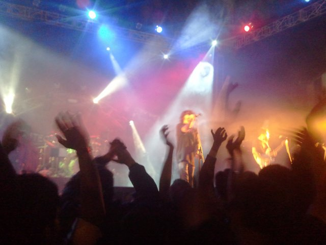 fossils at integration'11